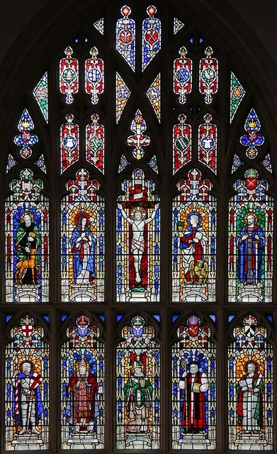 St Giles, Cripplegate, London EC2 - East window, near to Shoreditch, Islington, Great Britain.